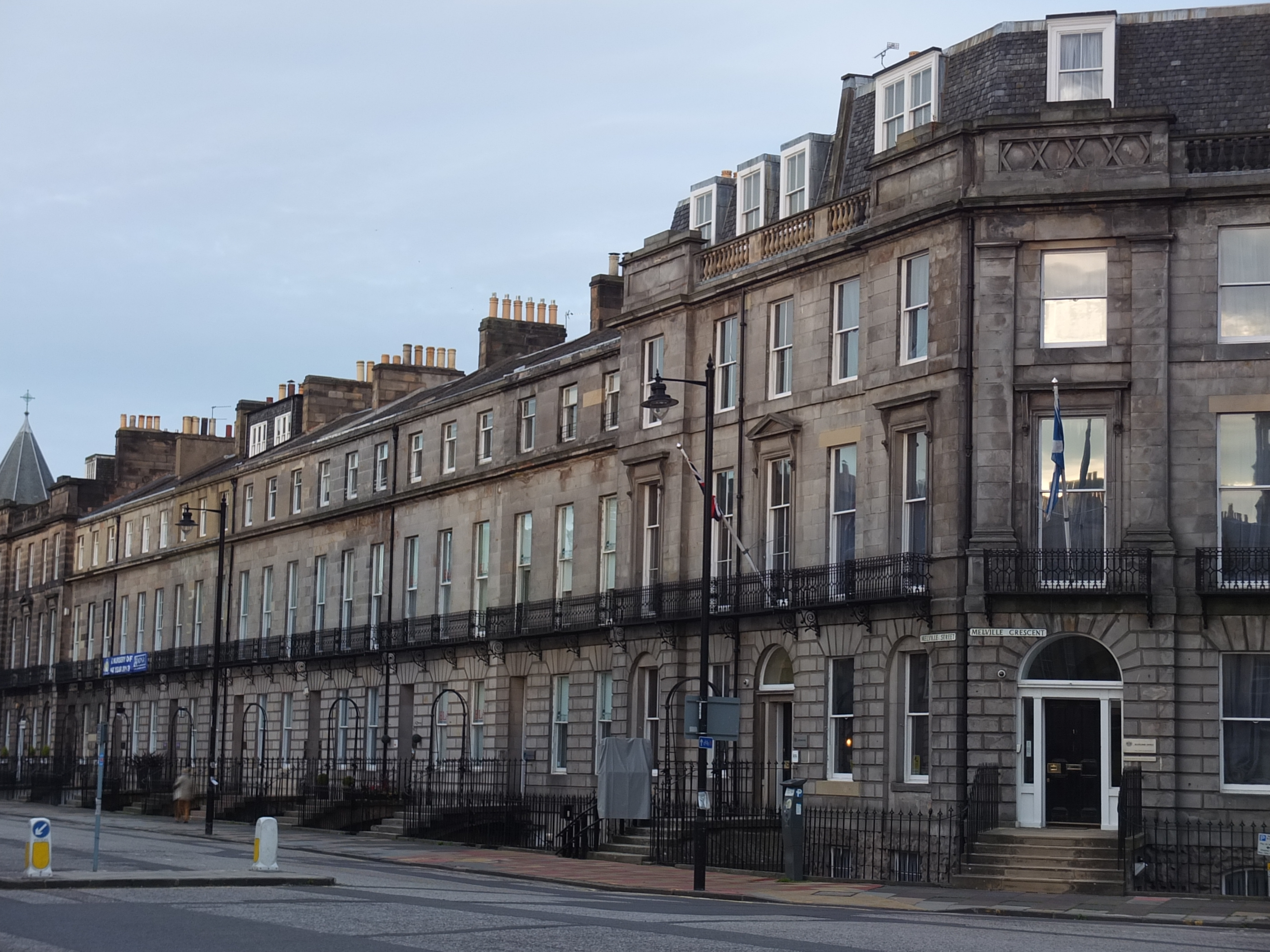 47-61 Melville Street